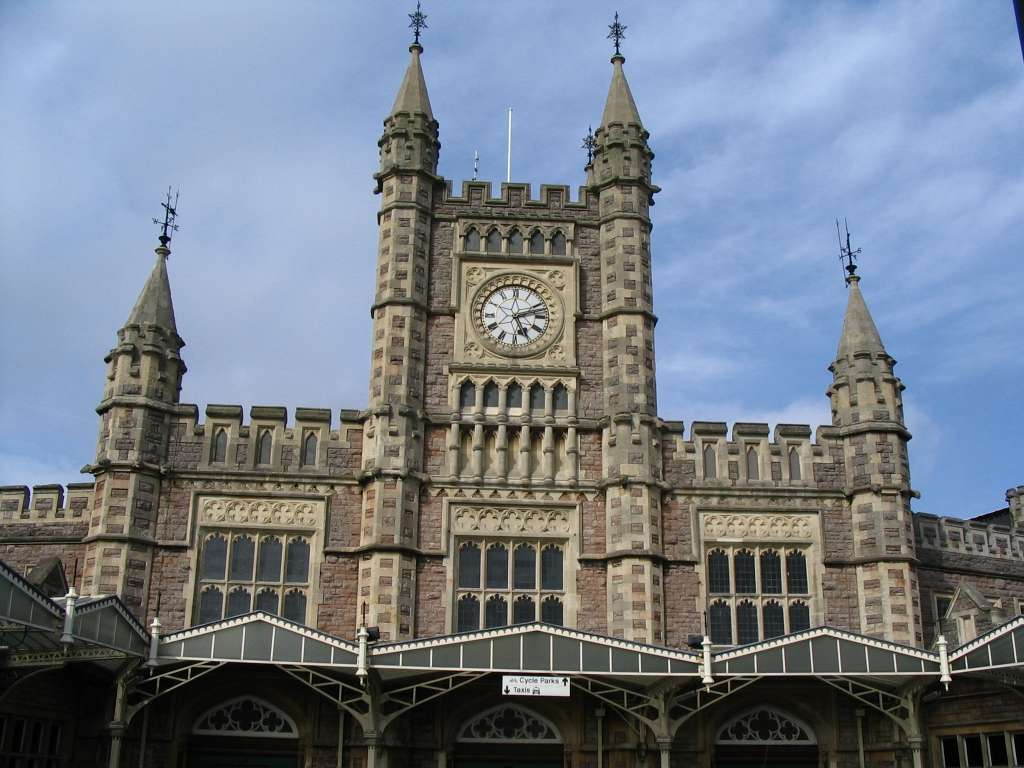 The front face of Bristol Temple Meads station.